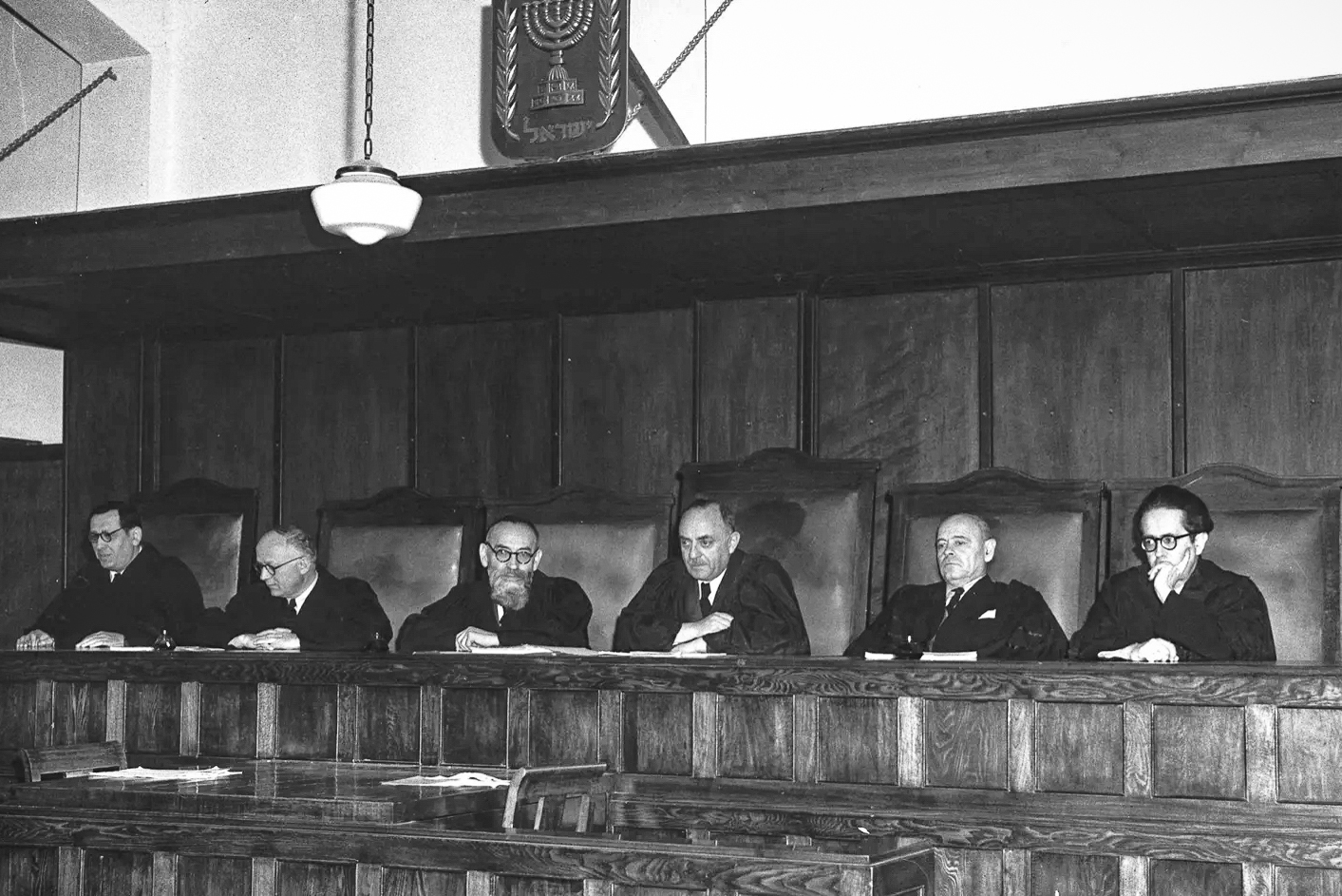 The Israeli Supreme Court in Jerusalem, 1953. In the center M. Smora, President of the Supreme Court accompanied by Supreme Court Justices, S. Asaf, I. Olshan, S.Z. Cheshin, S. Agranat and M. Silberg.